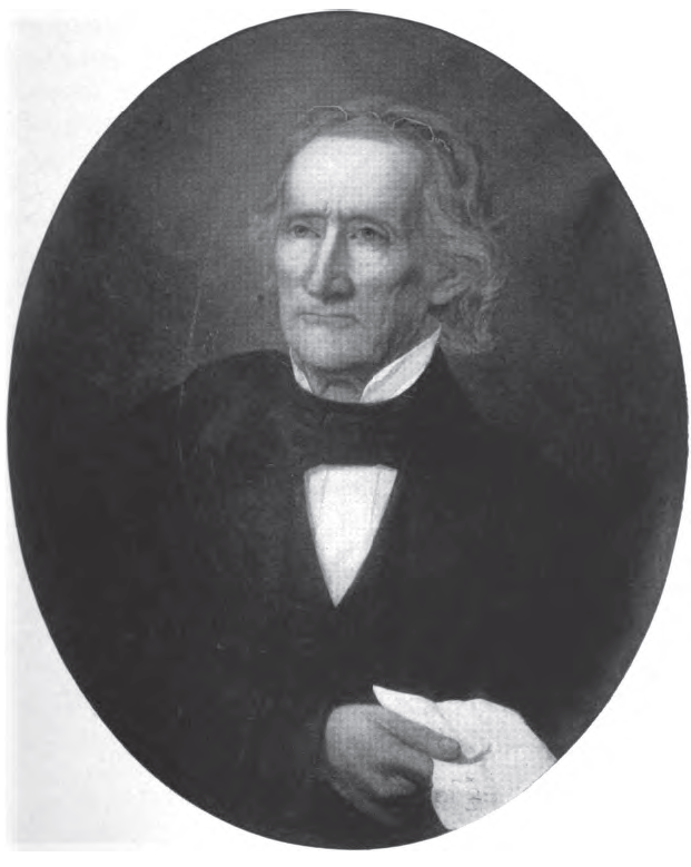 A governor of Ohio named Allen Trimble, from a painting at the Ohio Statehouse.